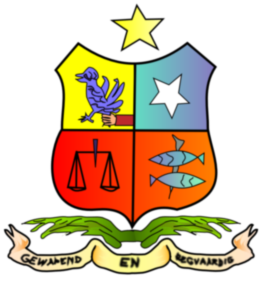 Coat of arms, Republic of Stellaland, Southern Africa, 1882-1885